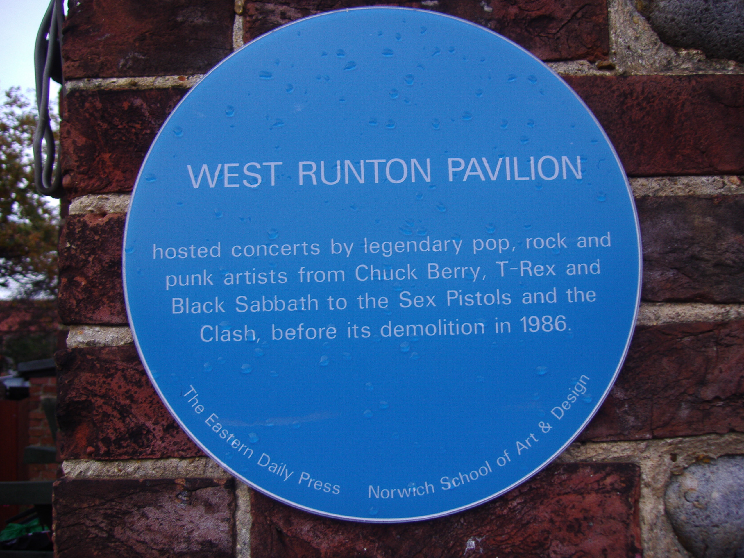 Blue Plaque at the Village Inn, West Runton. This image represents an Open Plaques entry #2349.